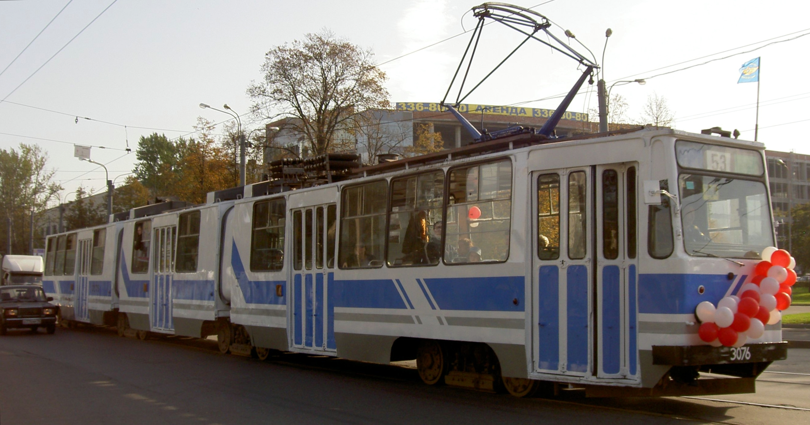 LVS-89 tram in Dobrolyubova prospect in Saint Petersburg.